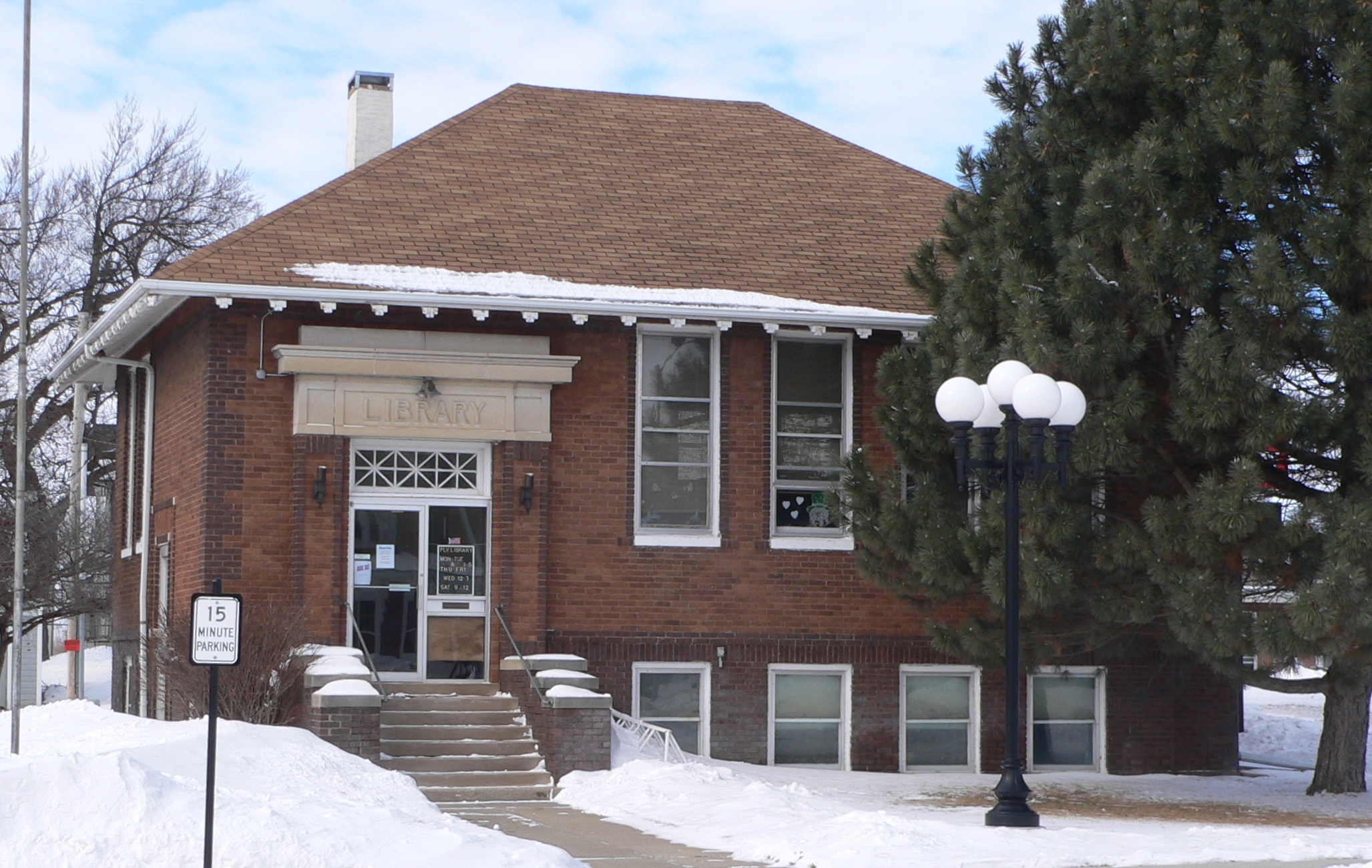 Plainview Carnegie Library in Plainview, Nebraska; seen from the east. The building was constructed in 1916-17, and still serves as Plainview's library. It is listed in the National Register of Historic Places.